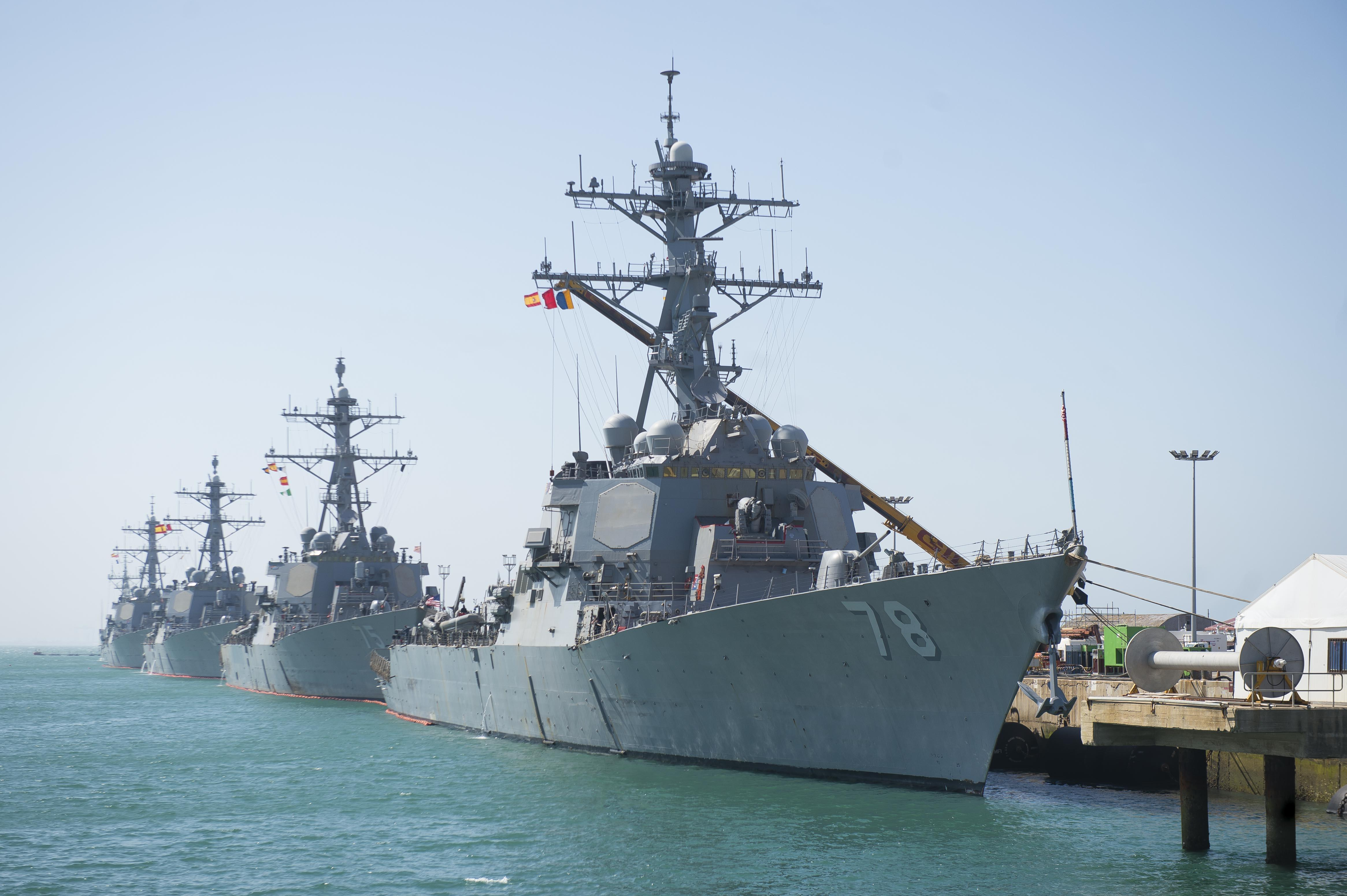 ROTA, Spain (June 13, 2017) The Arleigh Burke-class guided-missile destroyers USS Porter (DDG 78), front, USS Donald Cook (DDG 75), USS Carney (DDG 64) and USS Ross (DDG 71) are moored at Naval Station Rota, Spain. (U.S. Navy photo by Mass Communication Specialist 3rd Class Robert S. Price/Released)170613-N-FQ994-107 Join the conversation: navylive.dodlive.mil